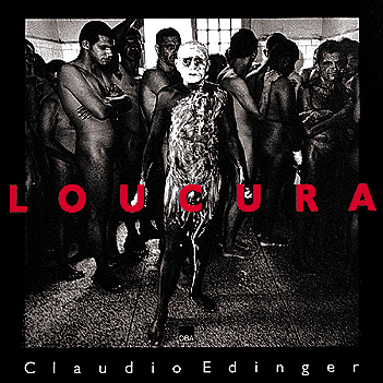 Livro Loucura